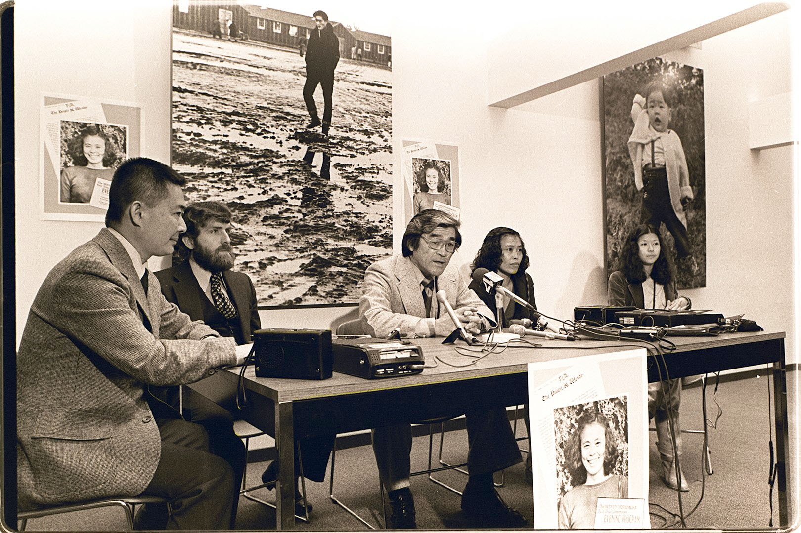 Wendy Yoshimura (second from right)holds a press conference (held at the JACL National HQ backroom on Sutter Street in San Francisco's Japantown) in 1976 with her defense attorney James Larson (second from left, supporter and scholar Raymond Y. Okamura (far left).; Reverend Lloyd Keigo Wake is the chairman of the Wendy Yoshimura Fair Trial Committee. Woman at far right is Gail Aratani. 1976 Photo by Nancy Wong